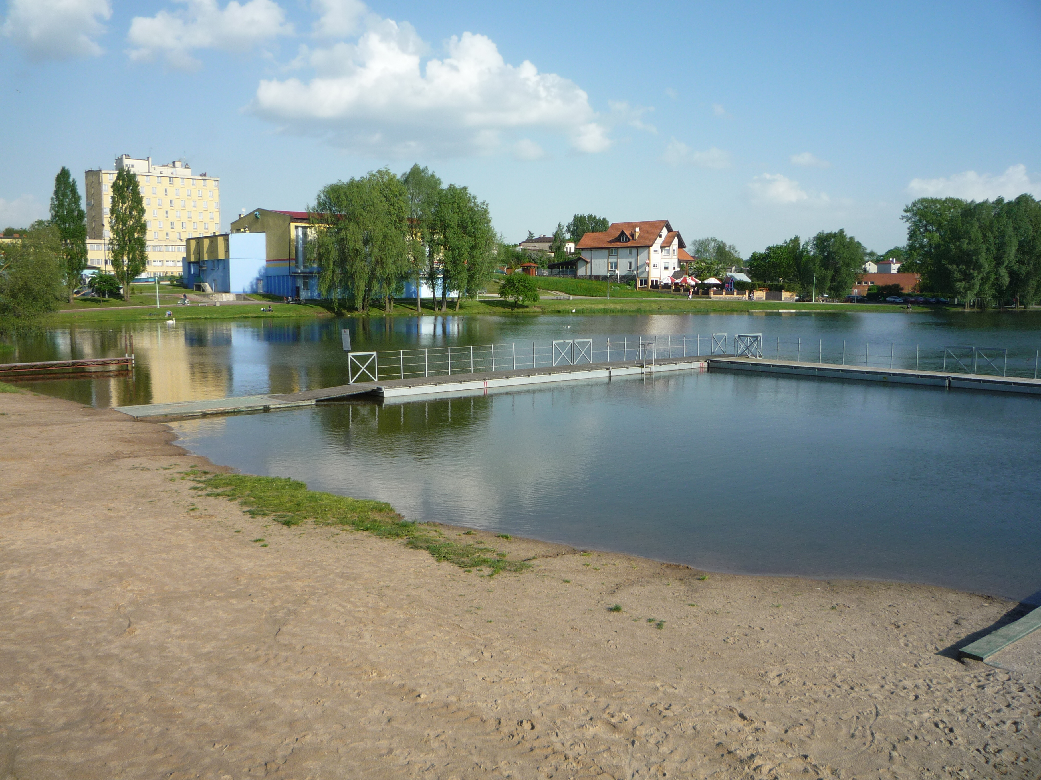 Suwałki, Poland